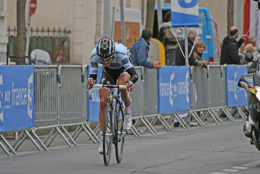 Kasper Klostergaard riding in the 2011 Paris–Tours